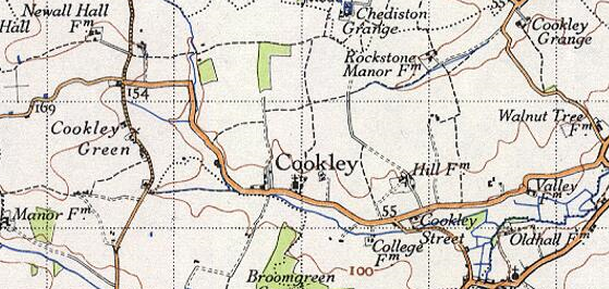 Map of cookley